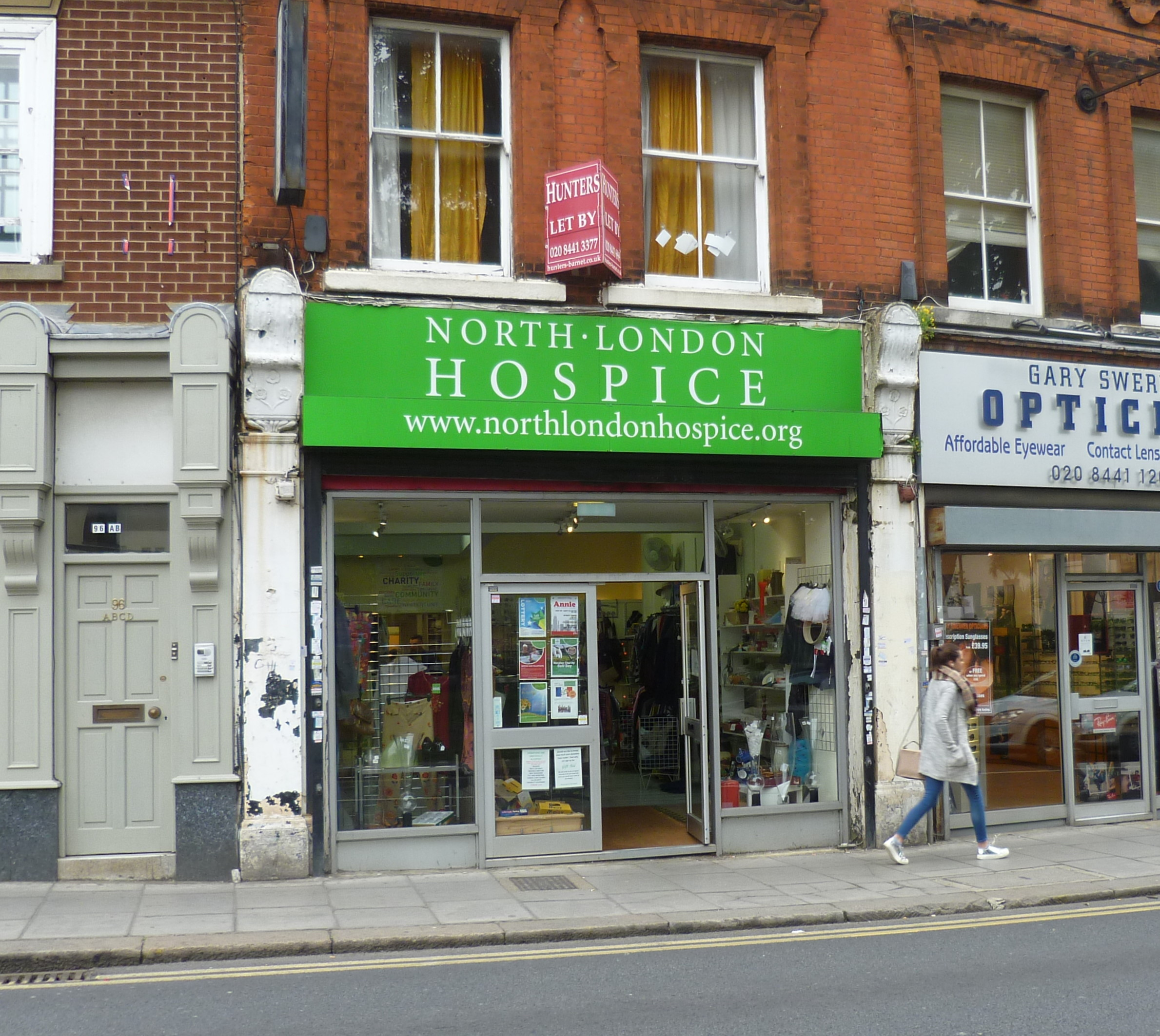 North London Hospice, Chipping Barnet